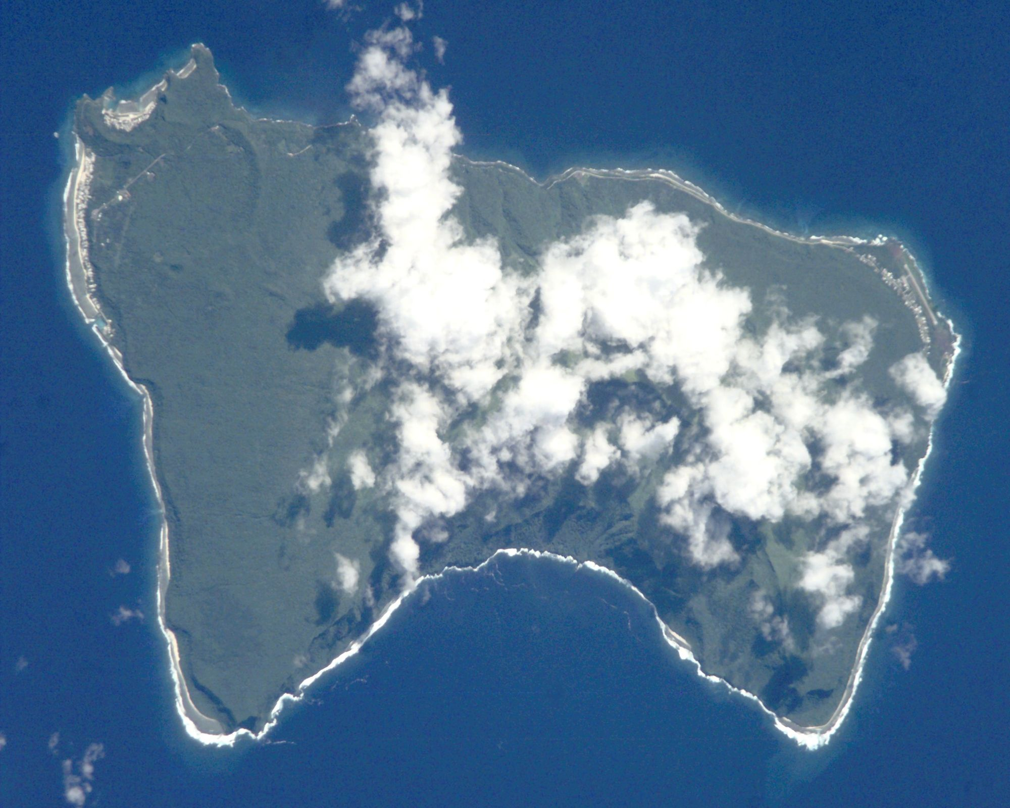 Ta‘ū Island, Manu‘a Islands, American Samoa